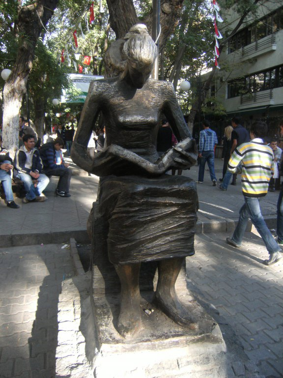 Statue of a seated reader by Metin Yurdanur (Ankara, Turkey)